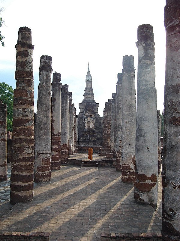 Wat Mahathat.Sukhothai Thailand.